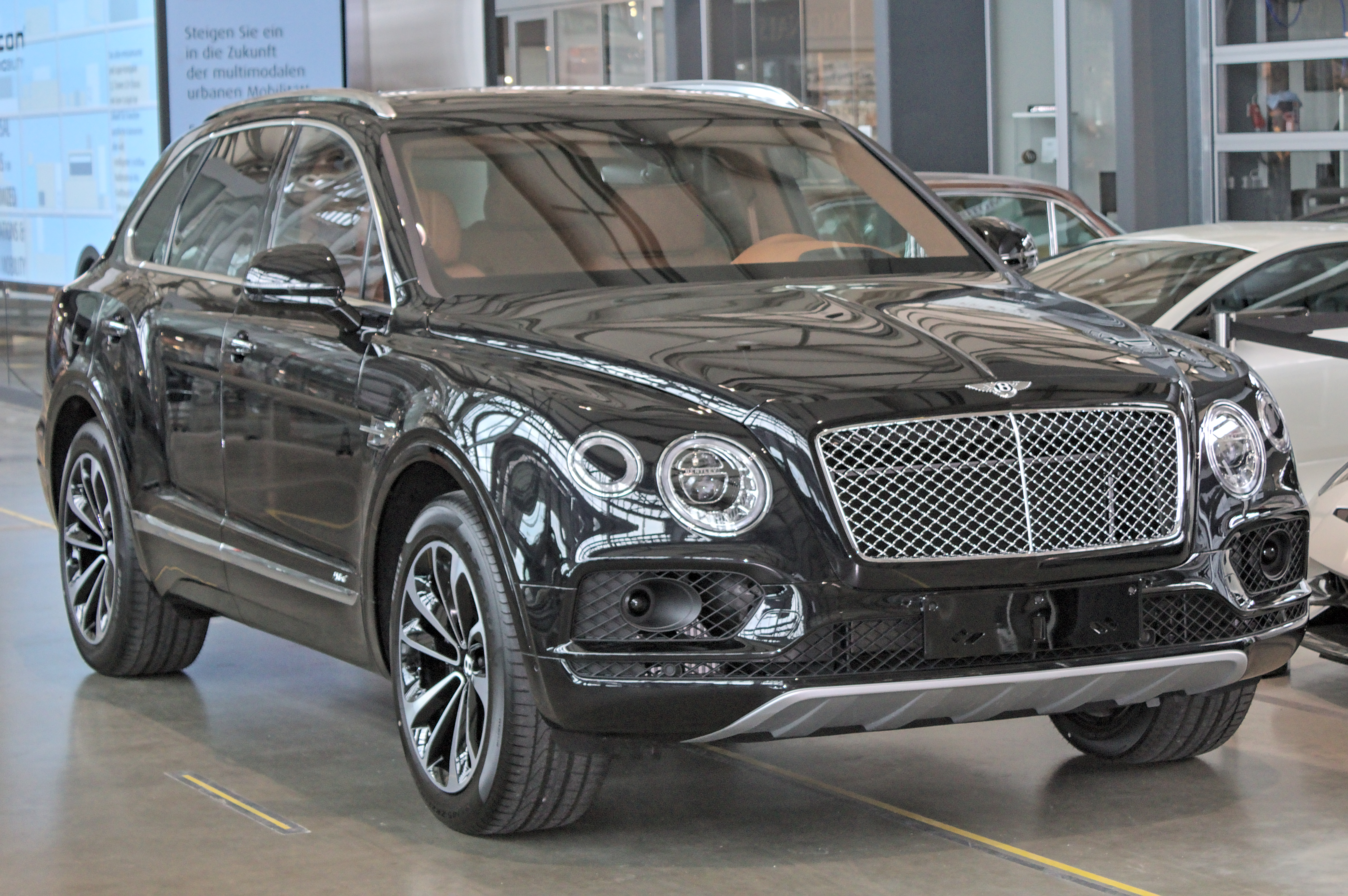 Bentley_Bentayga_Hybrid in Böblingen